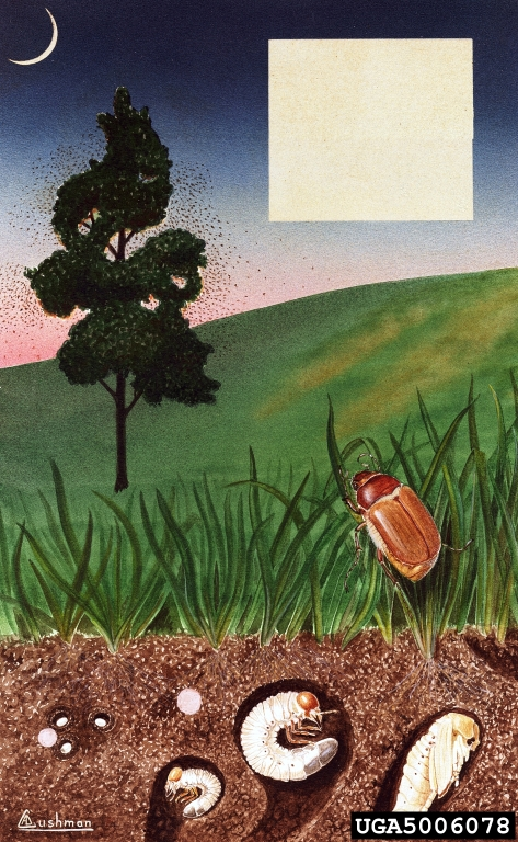 Graphic of the European Chafer life cycle European chafer Rhizotrogus majalis (Razoumowsky) = Melolontha melolontha Descriptor: Diagram or Graphic Description: Illustration by Arthur Cushman Image location: United States